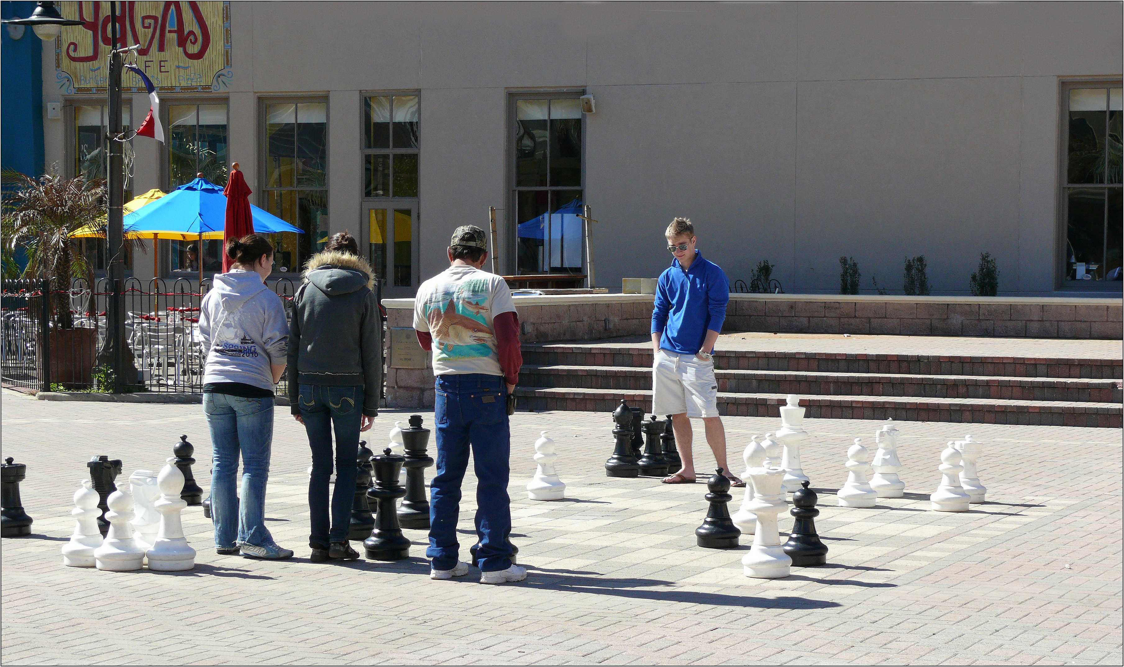 This giant chessboard is on the Strand in Galveston. There's always people playing.